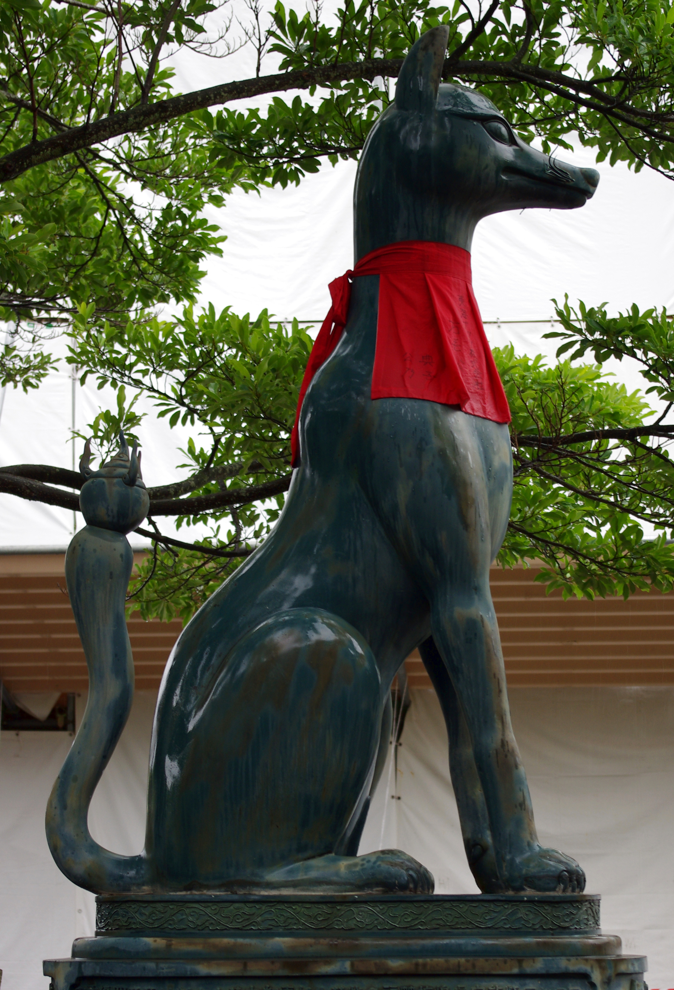 Fox statue in Fushimi Inari Shrine in Kyoto